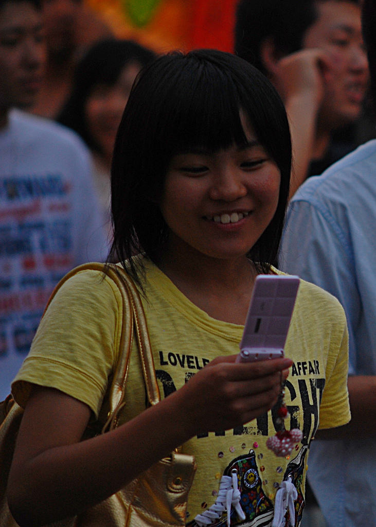 The keitai culture in Japan is massive, as almost everyone owns one, using it for calls, text messaging , games, internet, music players, and a whole lot more.